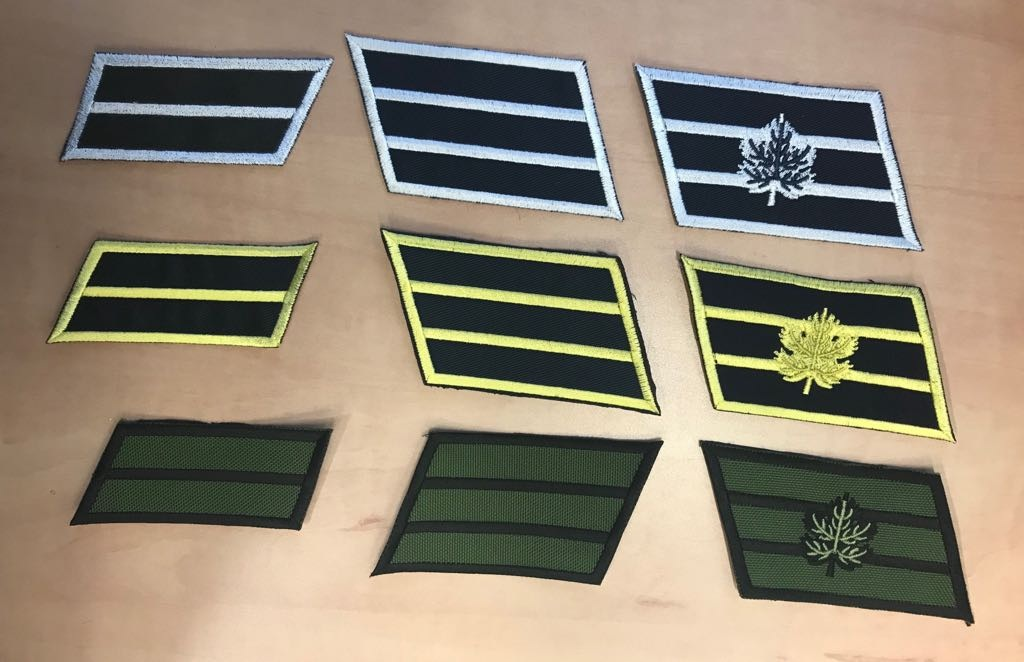 IDF Ranks enlisted new